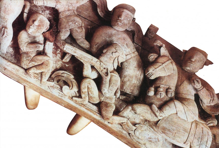 relief carving of a tiger hunt- Huong Canh communal house